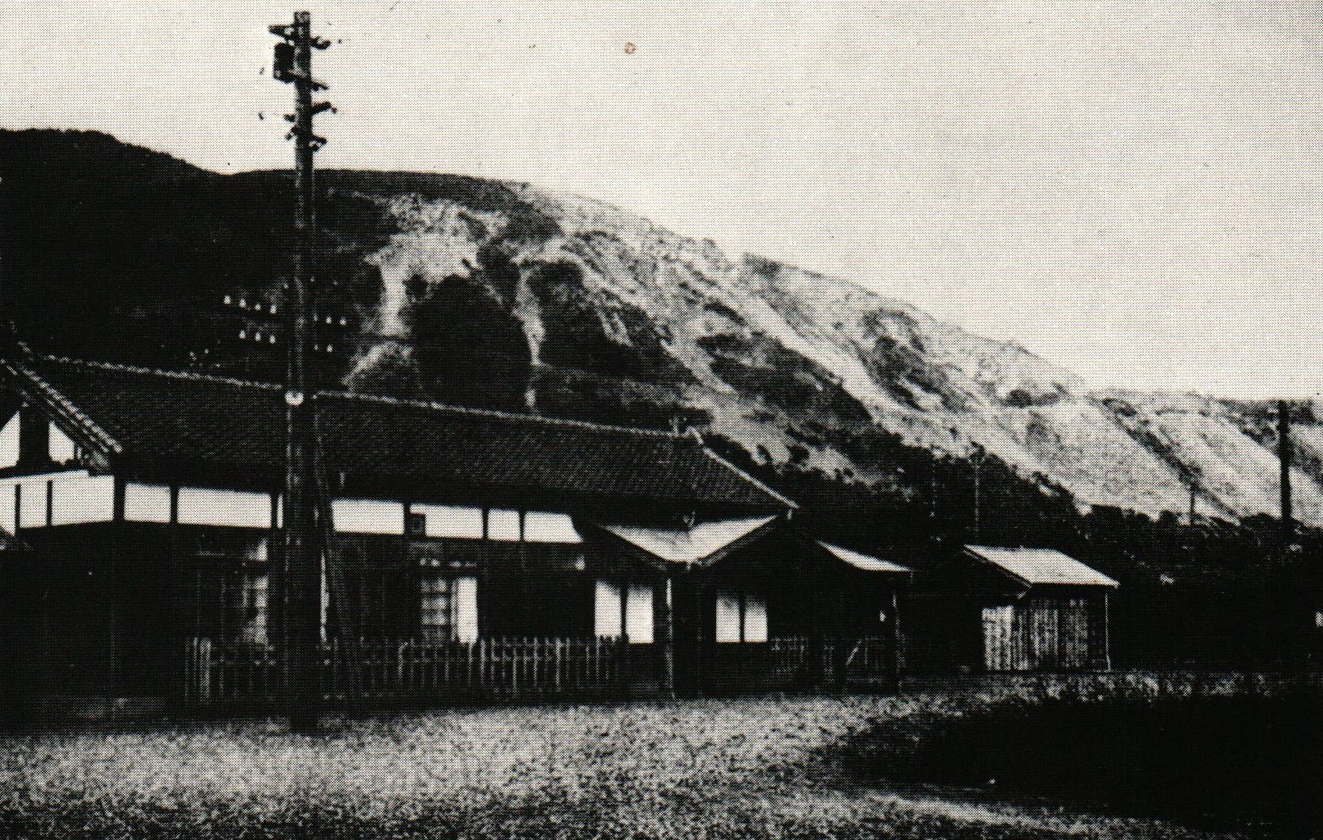 Sakaori Station Feb.1926